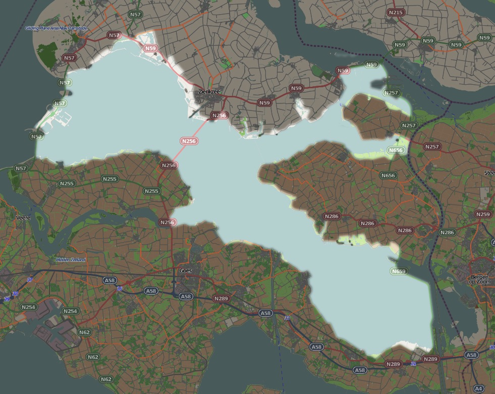 This map may be incomplete, and may contain errors. Don't rely solely on it for navigation.